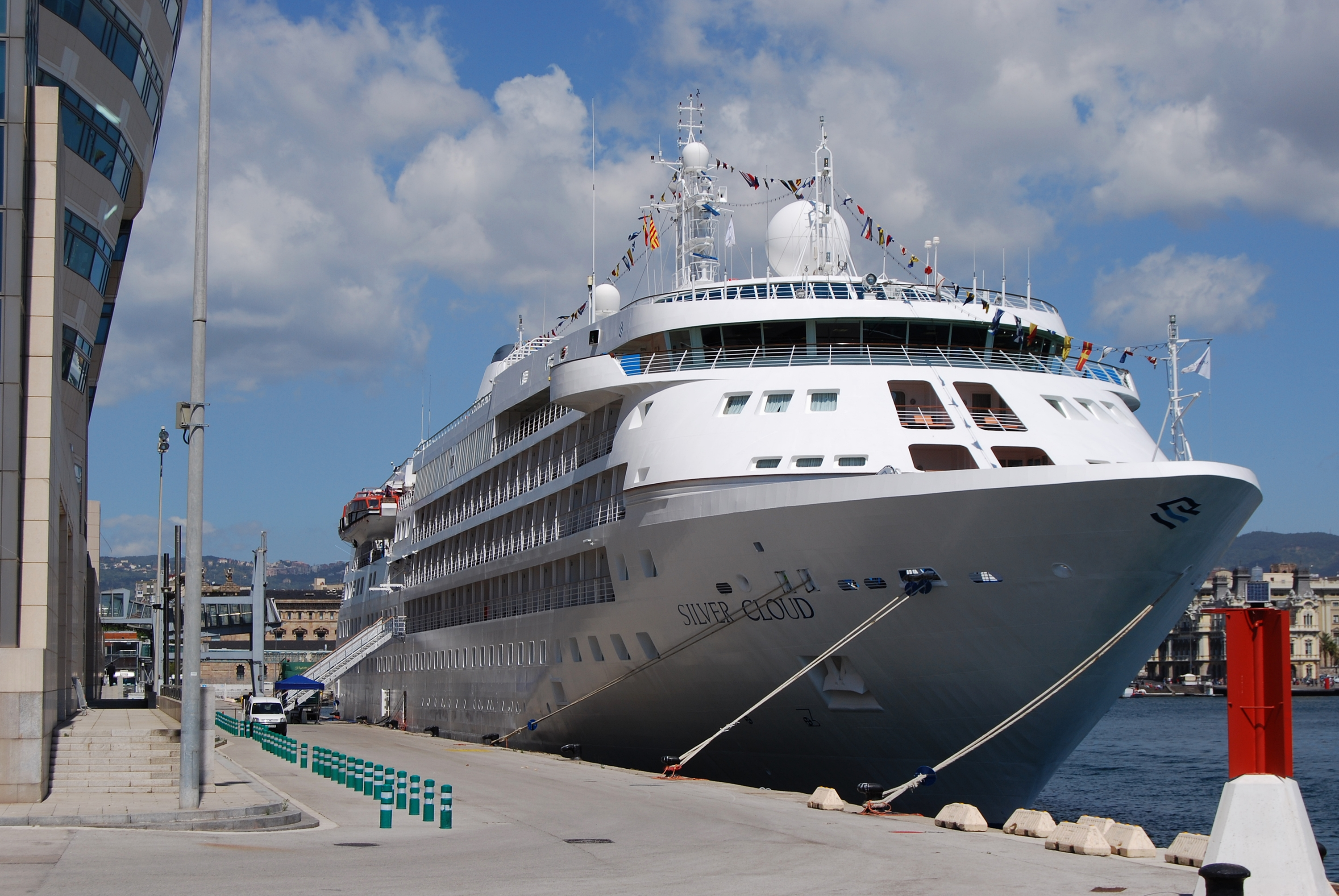 The cruise ship Silver Cloud in Barcelona, Catalunya.